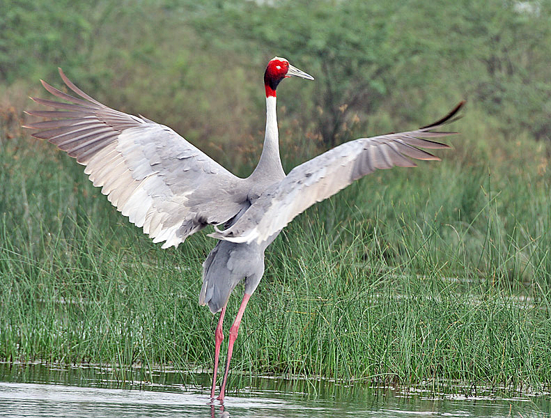 Sarus Crane (Grus antigone) at/ near Hodal in Faridabad District of Haryana, India.